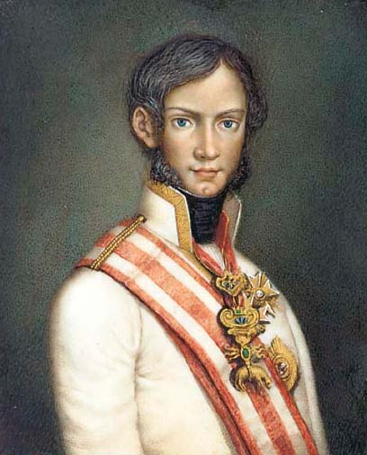 Leopold II, Grand Duke of Tuscany (1797-1870), in gold-bordered white coat, white shirt and black stock, wearing the jewel of the Order of the Golden Fleece, the red and white moiré sash and breast star of the Order of St. Joseph of Tuscany